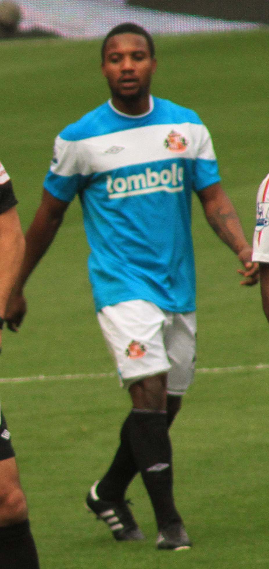 Stéphane Sessègnon playing for Sunderland against Arsenal.